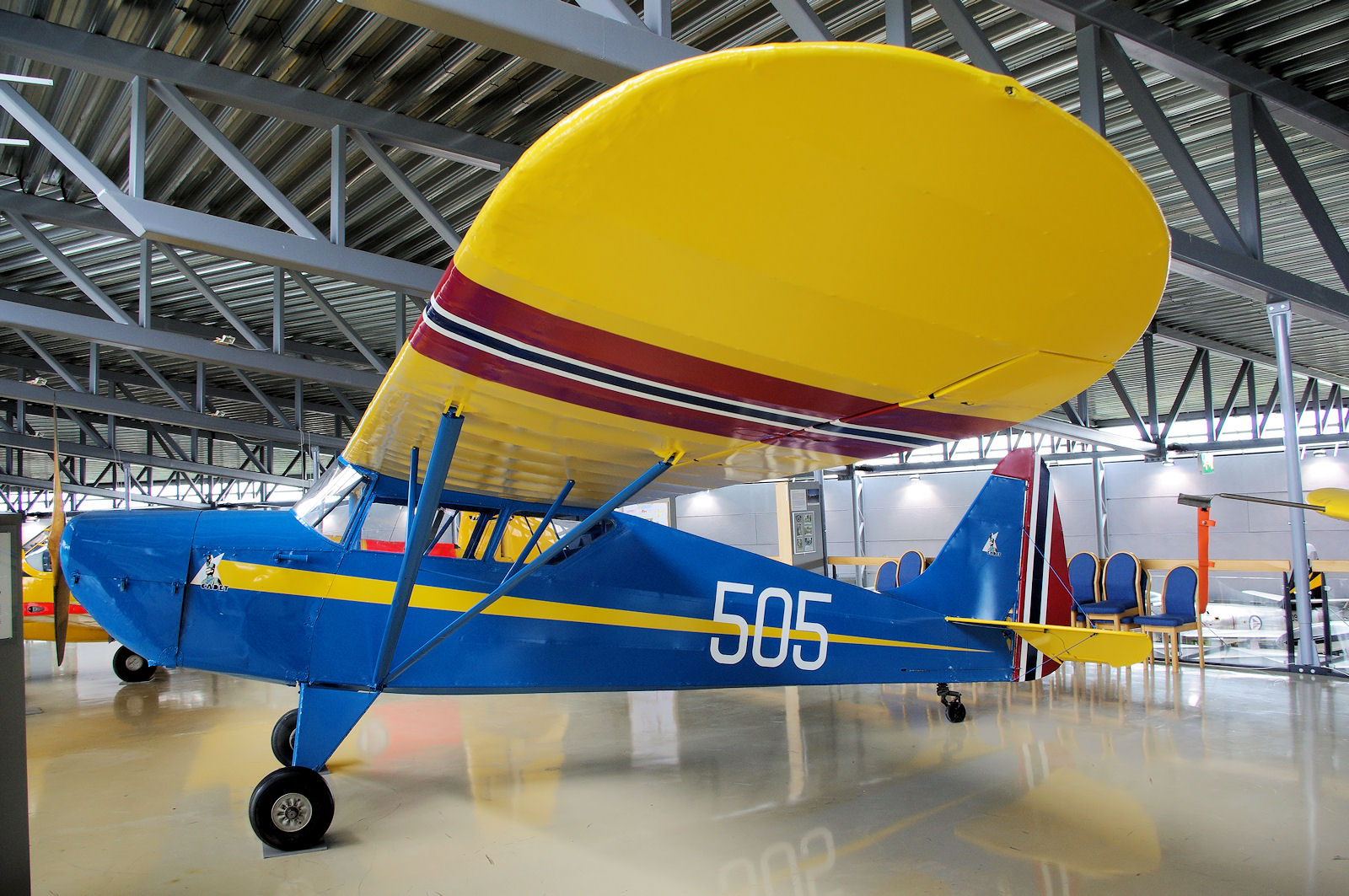 Interstate Cadet, Forsvarets flysamling, Gardermoen